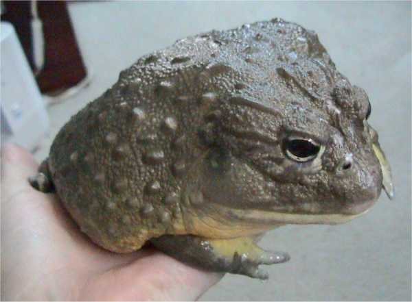 Photographer: LA Dawson African Bull Frog or Pyxie Frog, Pyxicephalus adspersus